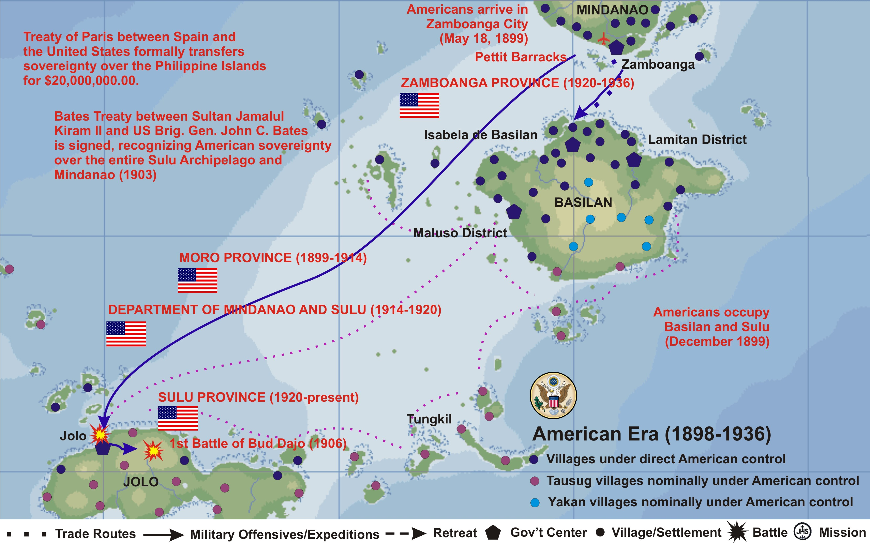 Basilan_Expanded_1898-1936